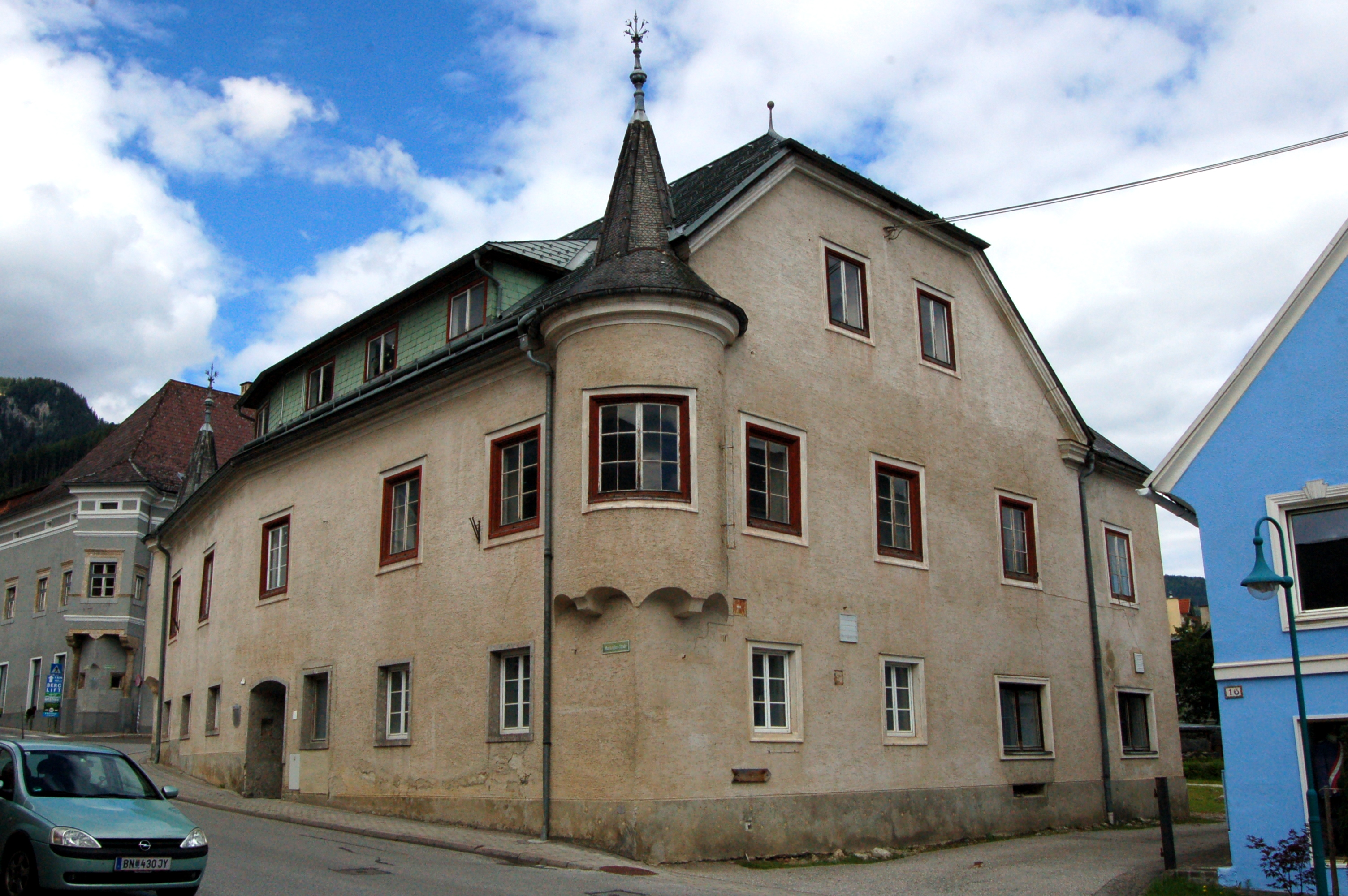 So-called Topplerhaus (formerly Hotel Aflenzerhof) in No. 15, Aflenz Kurort, Styria (listed building)